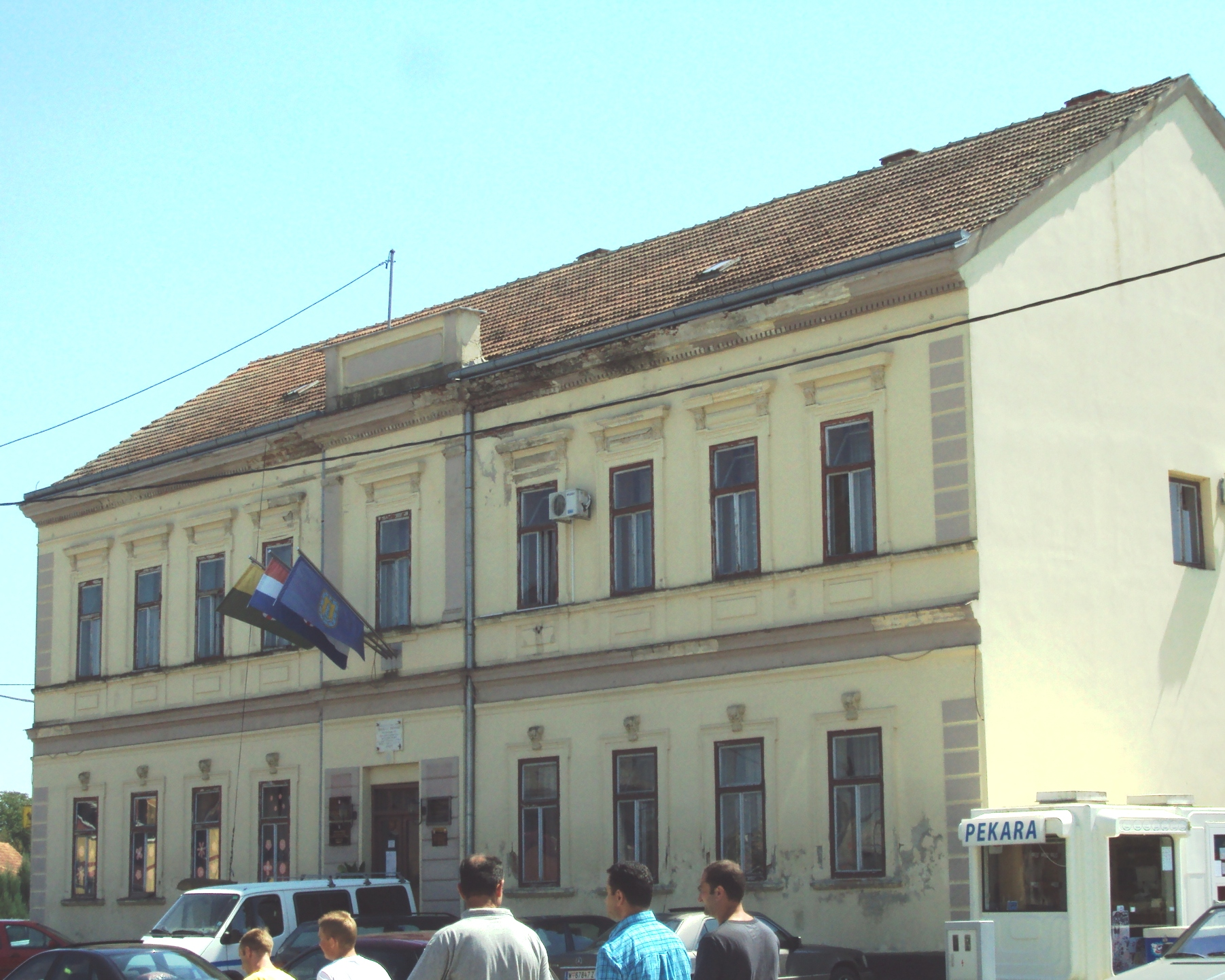 Nova Rača, Croatia